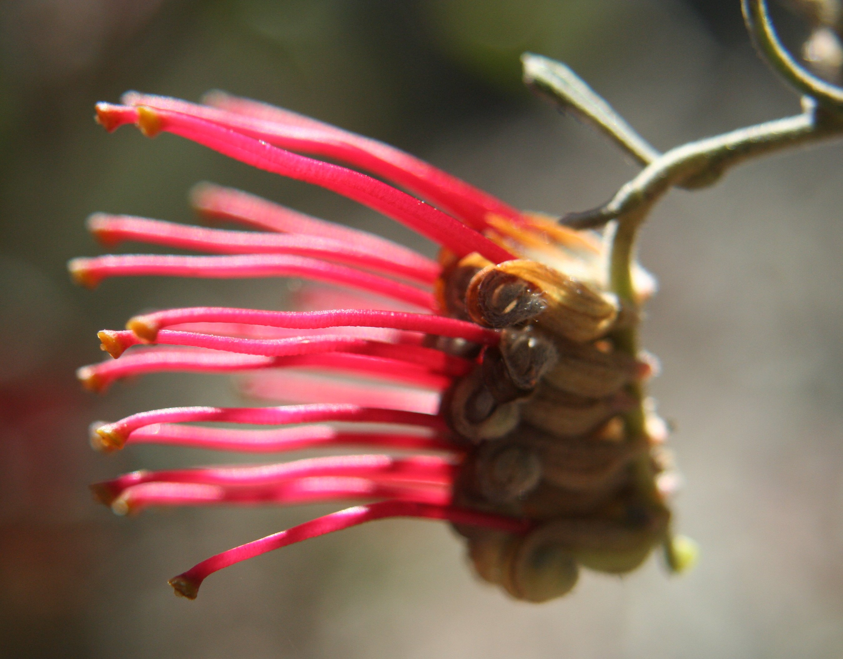 Flower of Grevillea aquifolium.